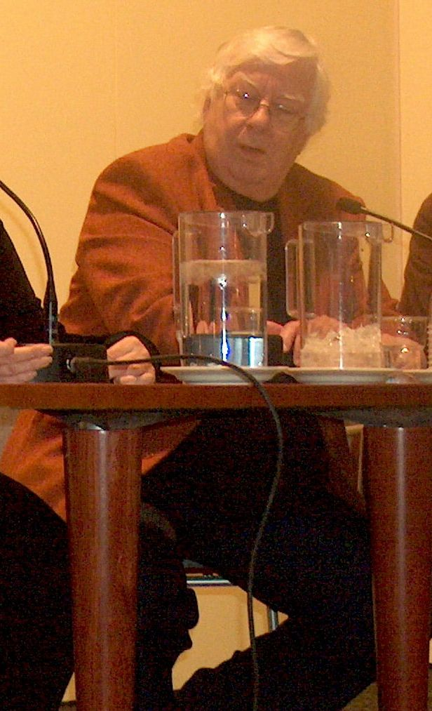 Risto Juhani, Finnish writer, at the Helsinki Book Fair in 2004